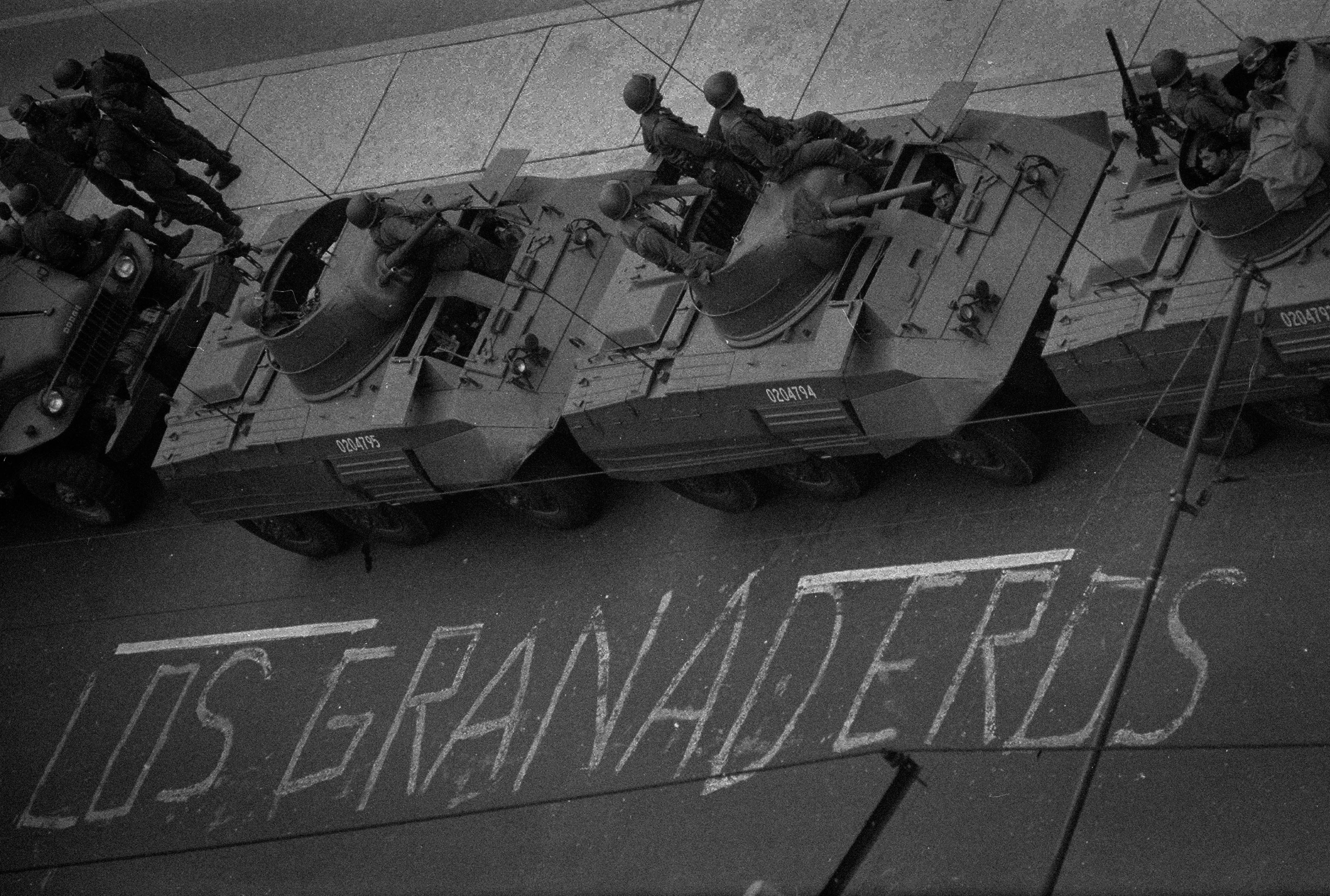 Images of Mexico City Student Movement, October 1968.